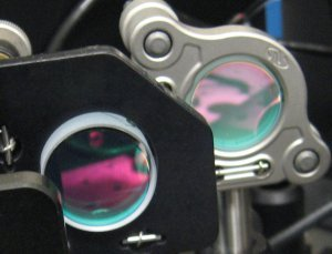 Mirror mounts holding two broadband dielectric mirrors being used in an optics experiment. The characteristic color of the mirrors is caused by their wavelength dependent reflectivity.